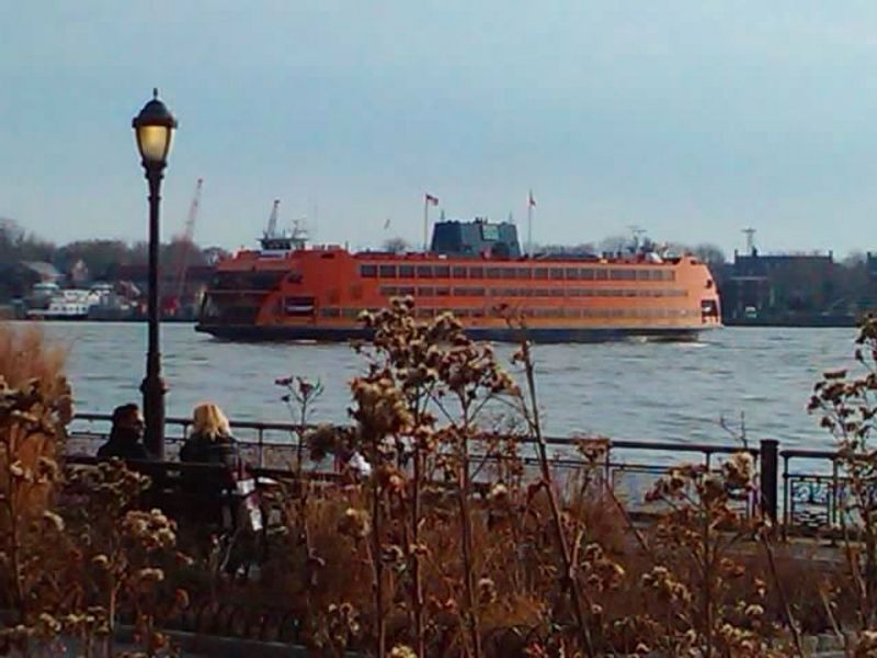 Staten Island Ferry seen from Battery Park.